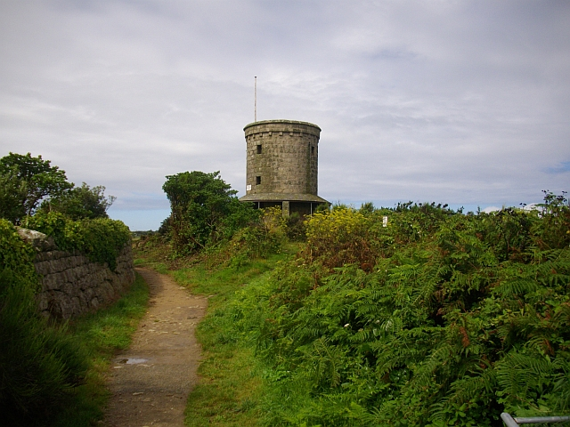 Buzza Tower Built as a windmill in 1834 to replace the Peninnis Mill, but maintained as a memorial since 1912 to King Edward's visit. It was named King Edward's Tower, but is commonly known now as the Buzza Tower. It is close to a hilltop chambered cairn and may be erected on top of another. It provides splendid views all round and shelter from the wind and driving rain.